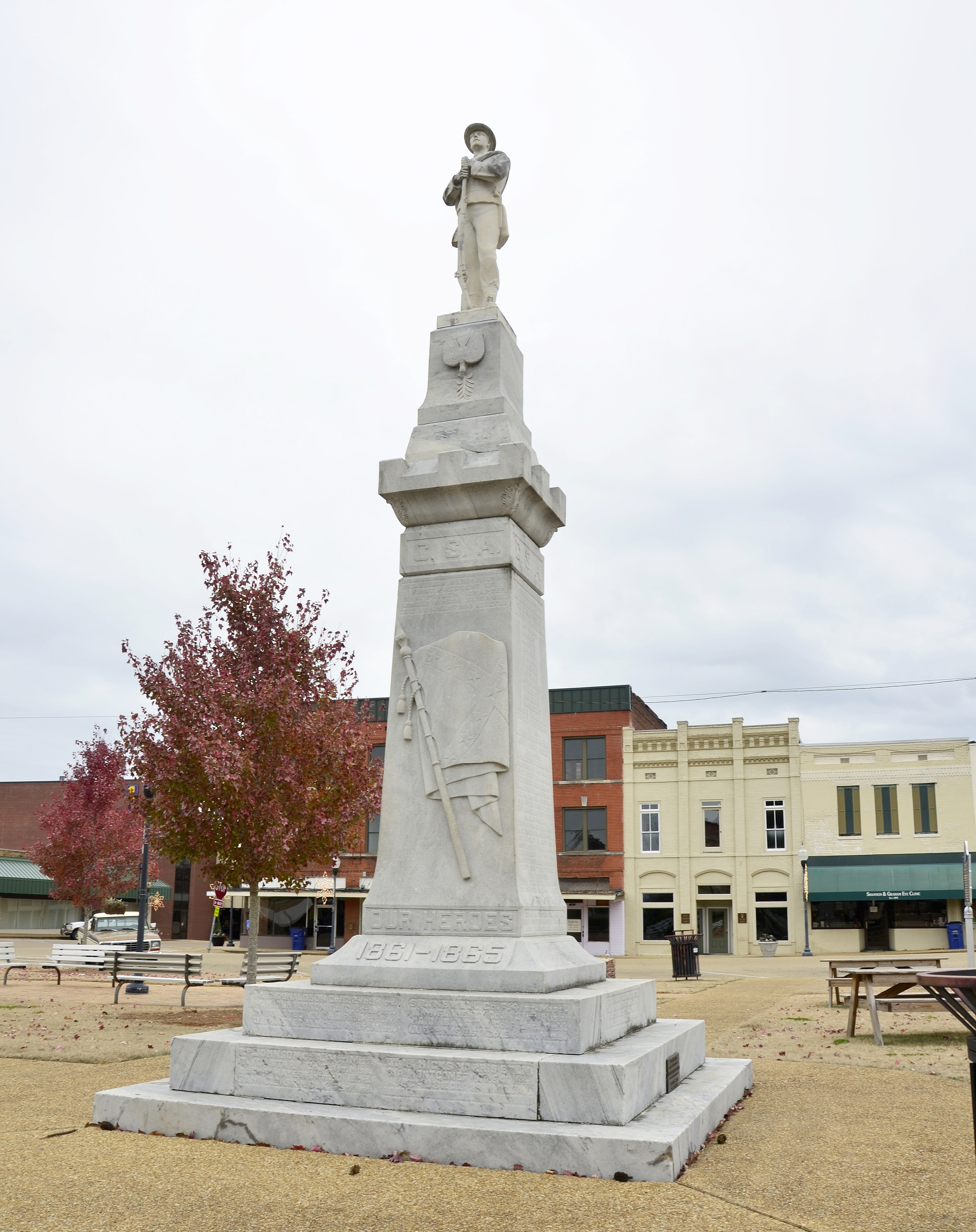 Confederate States of America monument in Pontotoc, Mississippi.